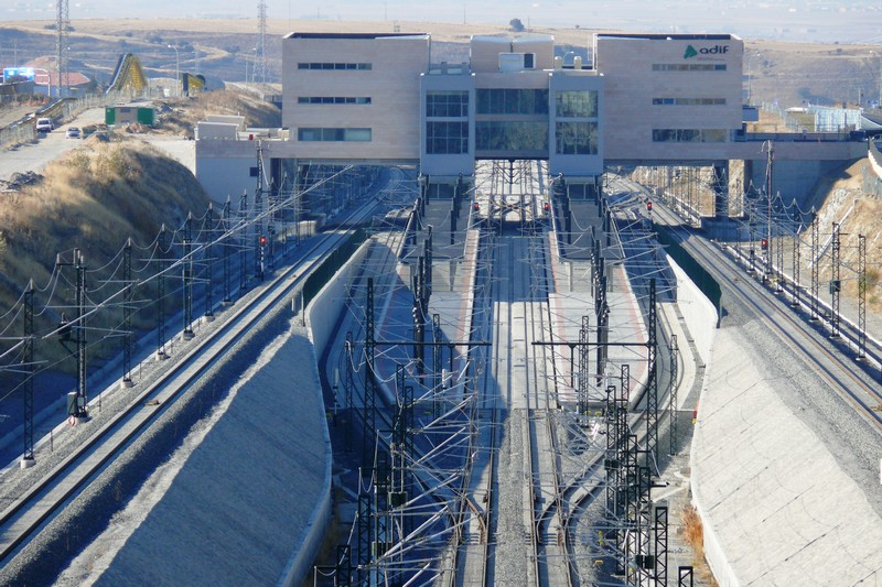 Segovia-Guiomar train station, on the Madrid-Valldolid high-speed railway line. Trains travelling to or coming from the Guadarrama tunnel (which is right next to the station) use the two outer tracks, while trains calling at Segovia-Guiomar (or those or begin or end their journey there) use the inner four tracks.